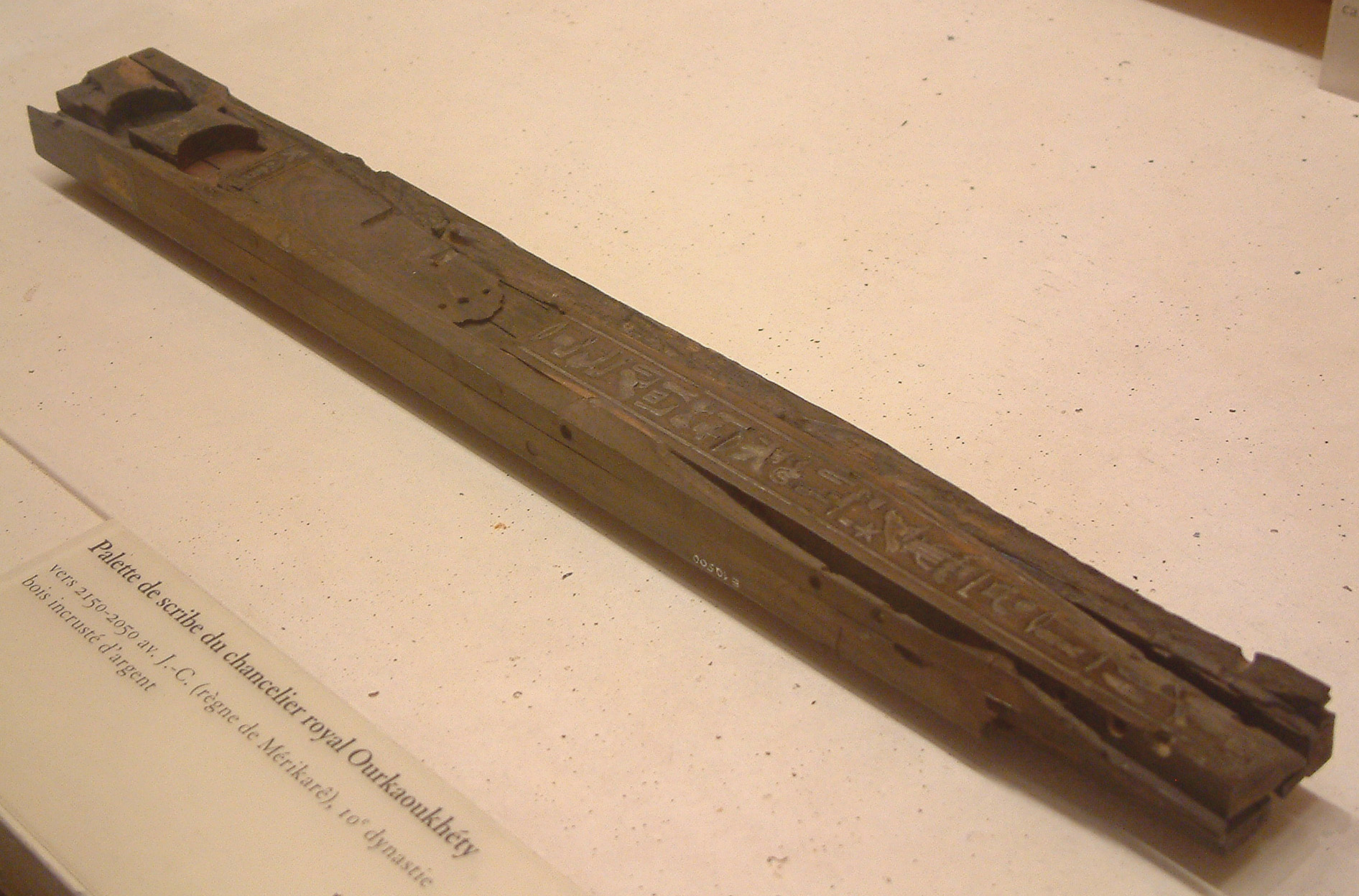 Palette de scribe du chancelier royal Ourkaoukhéty. 10eme dynastie.